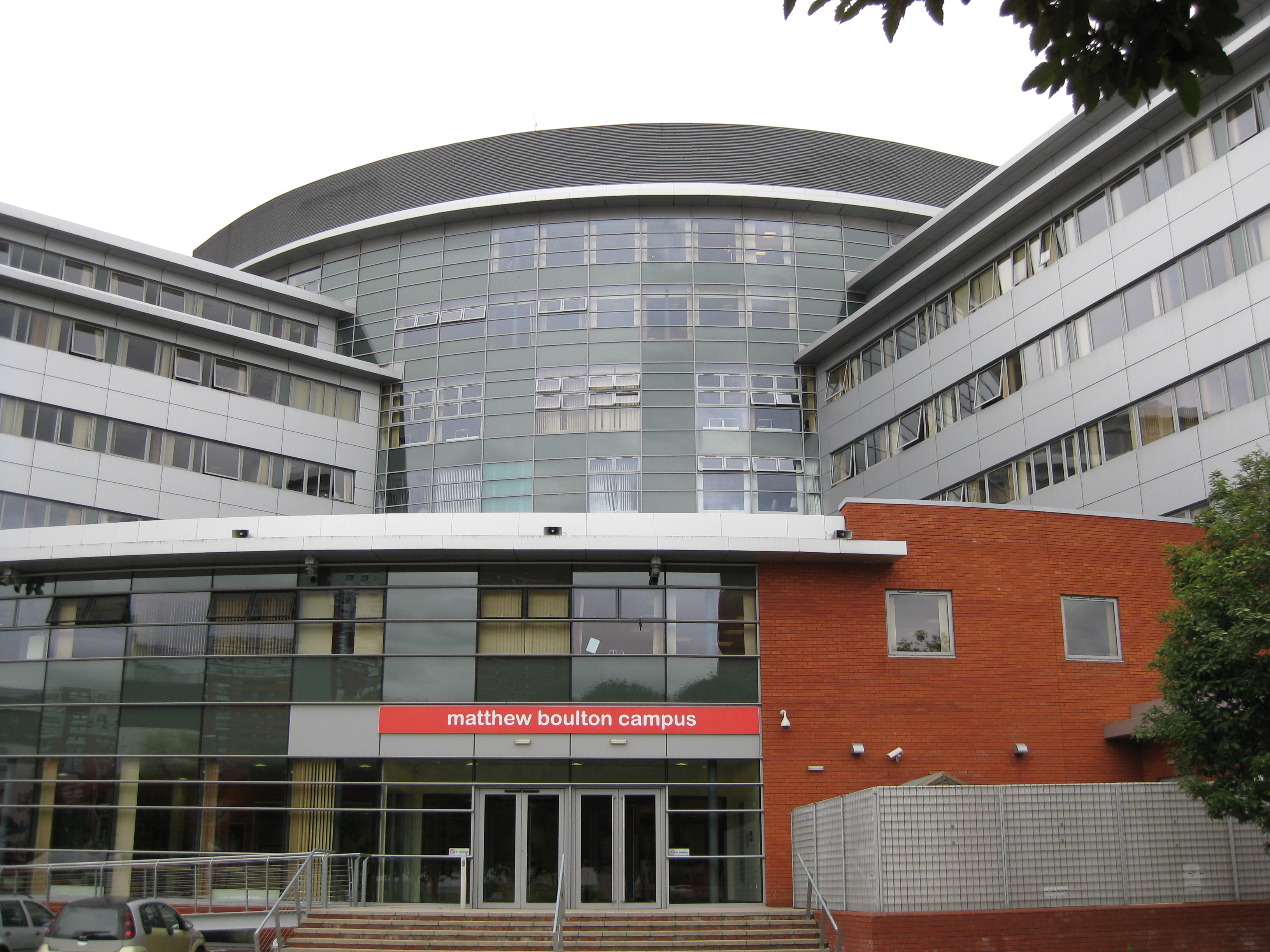 Matthew Boulton Campus of Birmingham Metropolitan Colllege, Aston, Birmingham, England. Built 2005, winner of RIBA award 2008.